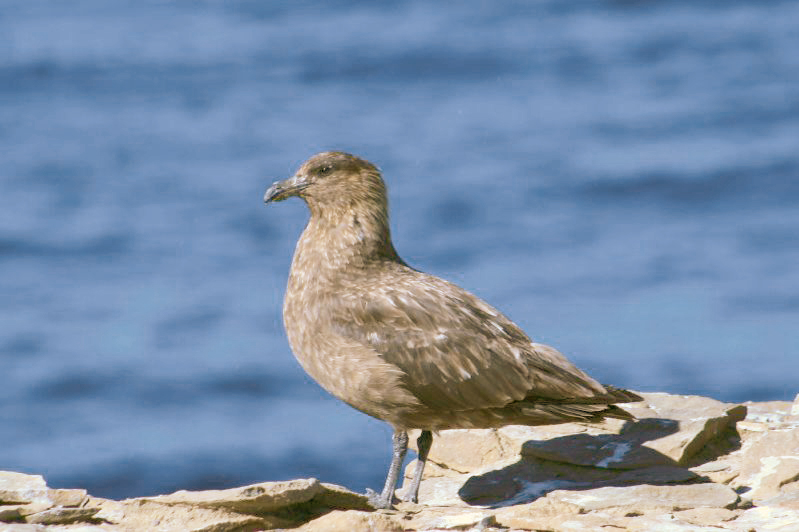 Brown Skua (Catharacta antarctica) in Falkland Islands